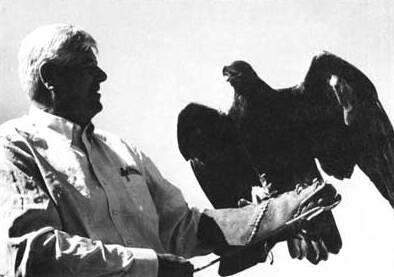 Rogers Morton of Maryland holding a bird on his arm.